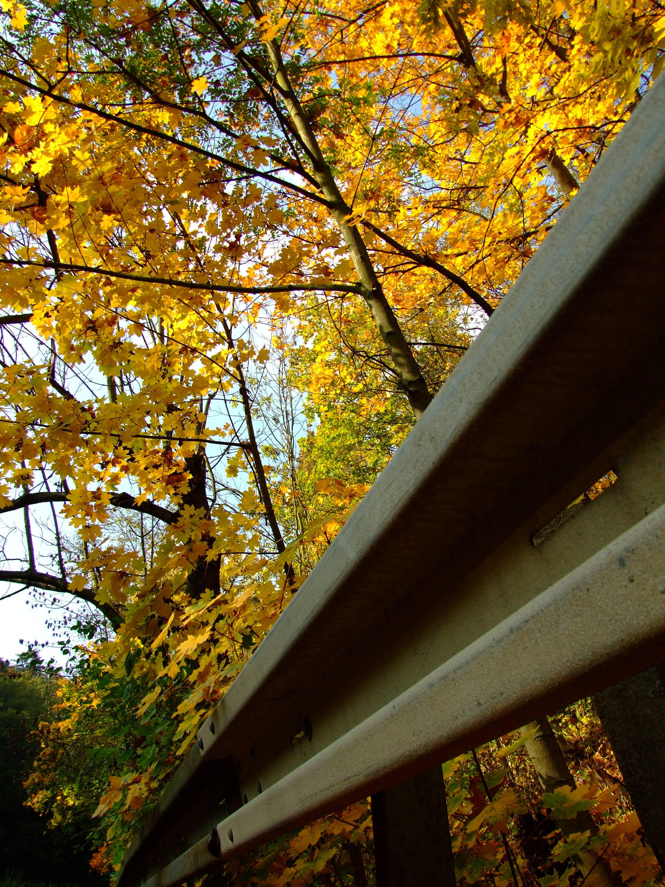 Prague parks Prokopské and Dalejské údolí (valleys), southwestern parts of Prague, CZhelp